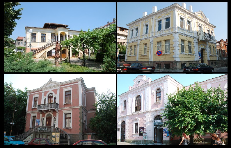 The four buildings in Regional Museum - Burgas